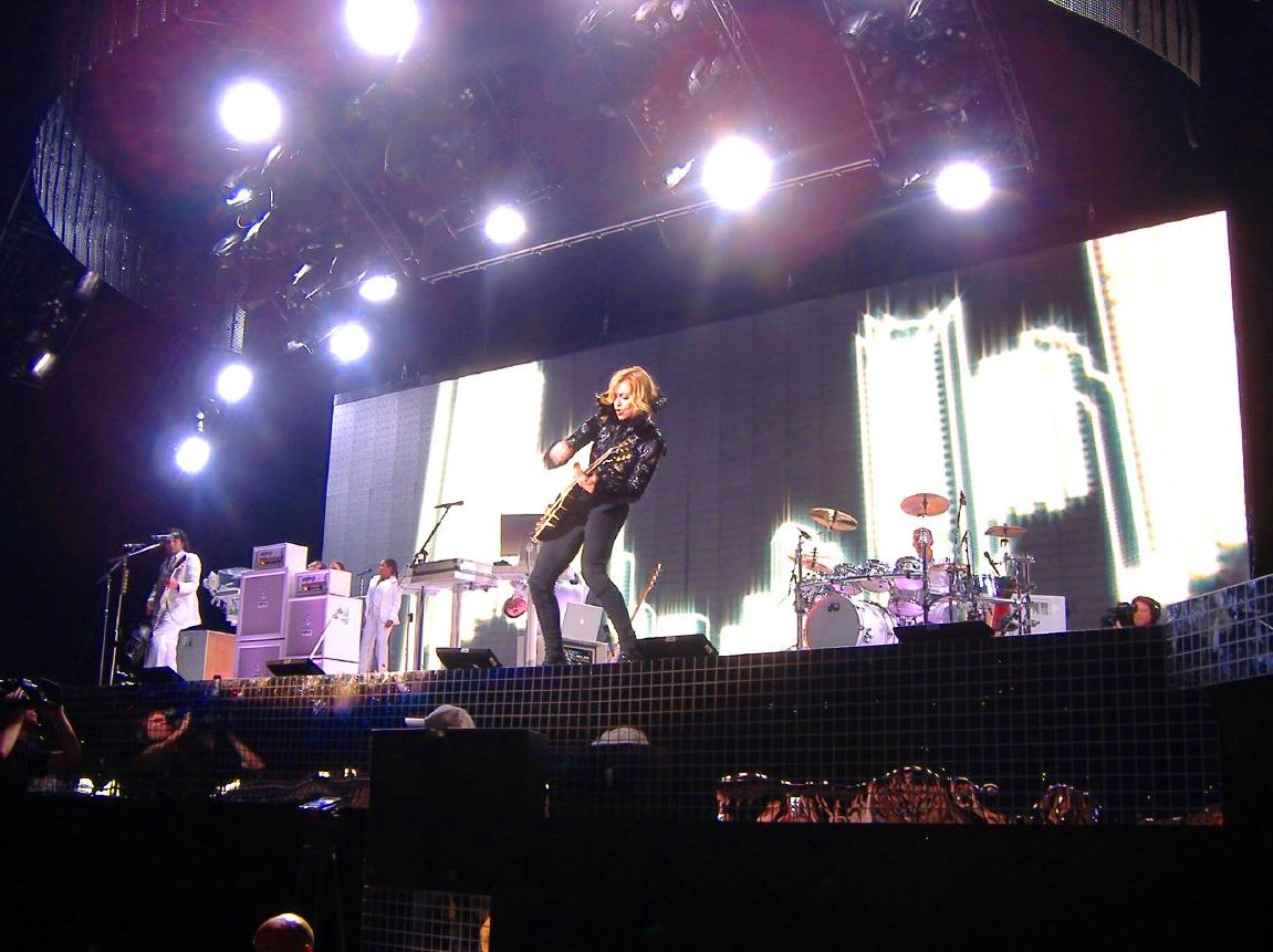 Madonna performing I Love New York on the Confessions Tour